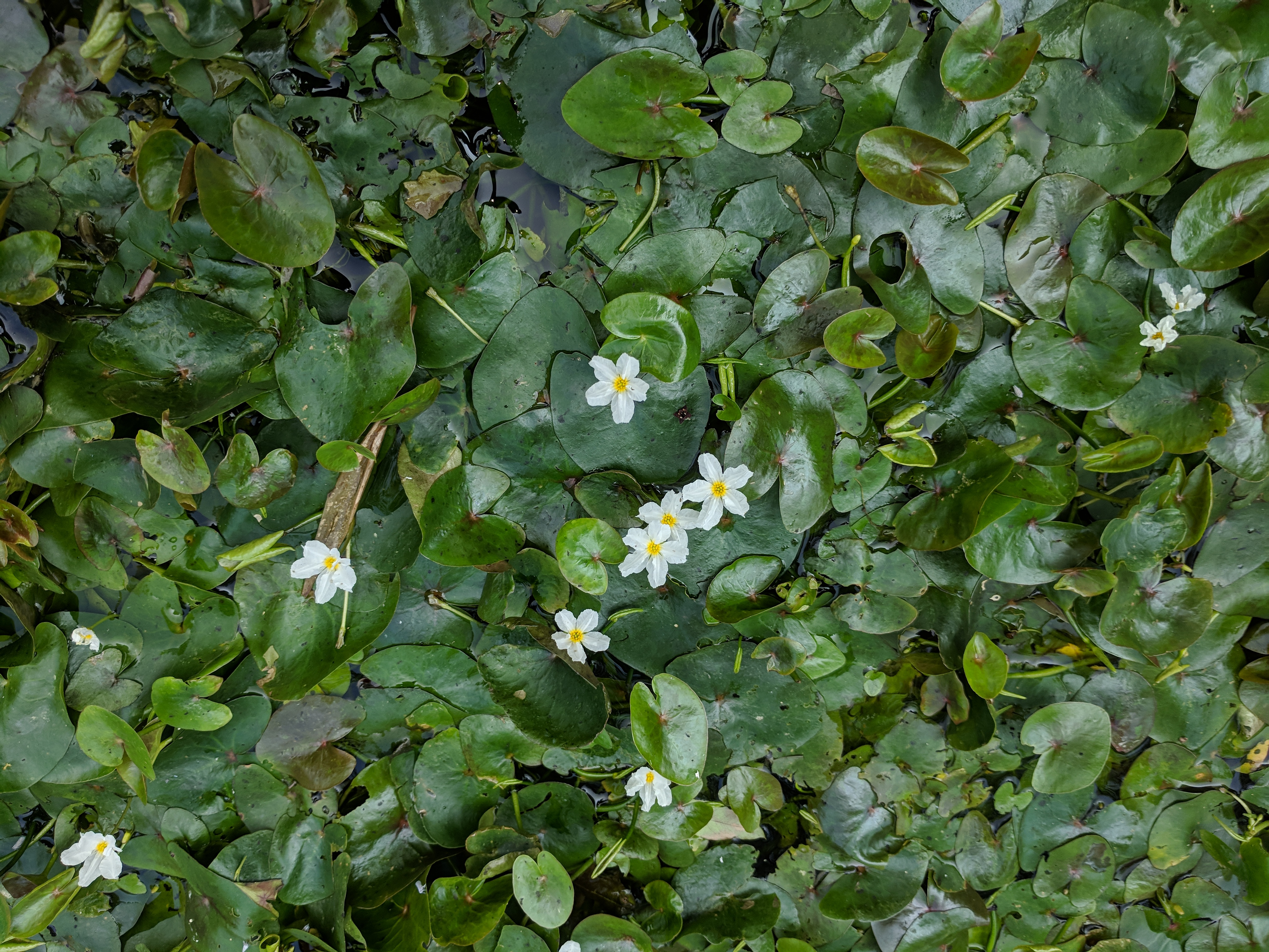 Waterplant